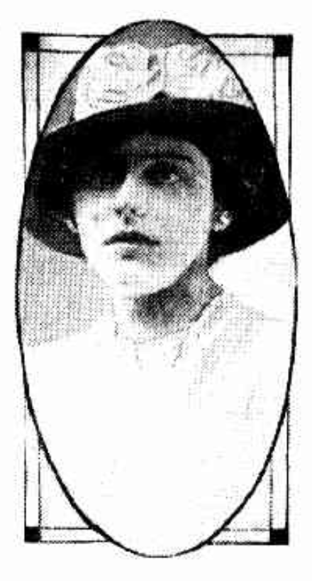 Isabel Jobson (1878-1943) also known as Isabella Kate Jobson, Australian nurse who served in World War I